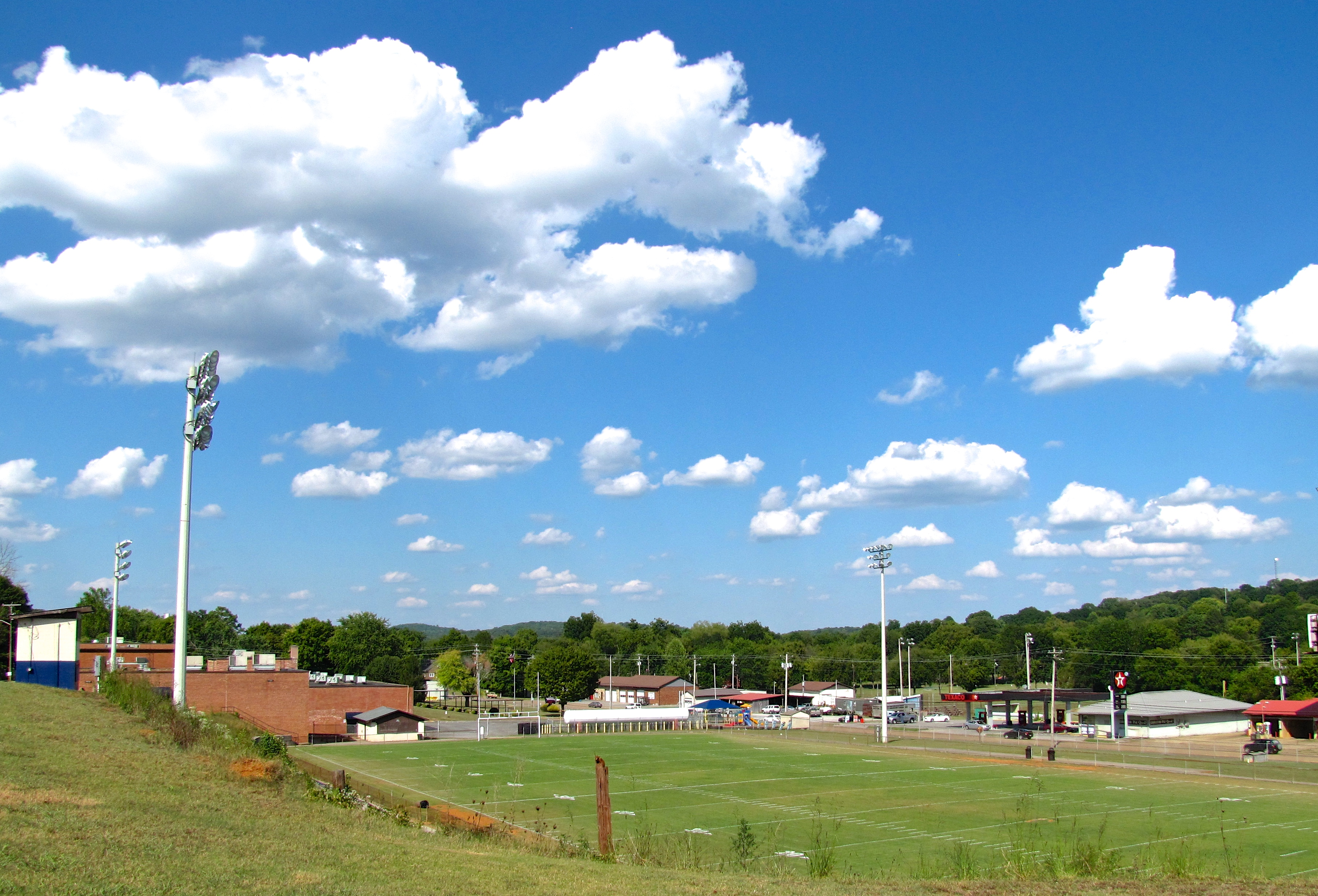 Charleston Elementary School and other buildings along U.S. Route 11 (Hiwassee Street) in Charleston, Tennessee, United States, viewed from Newport Lane.